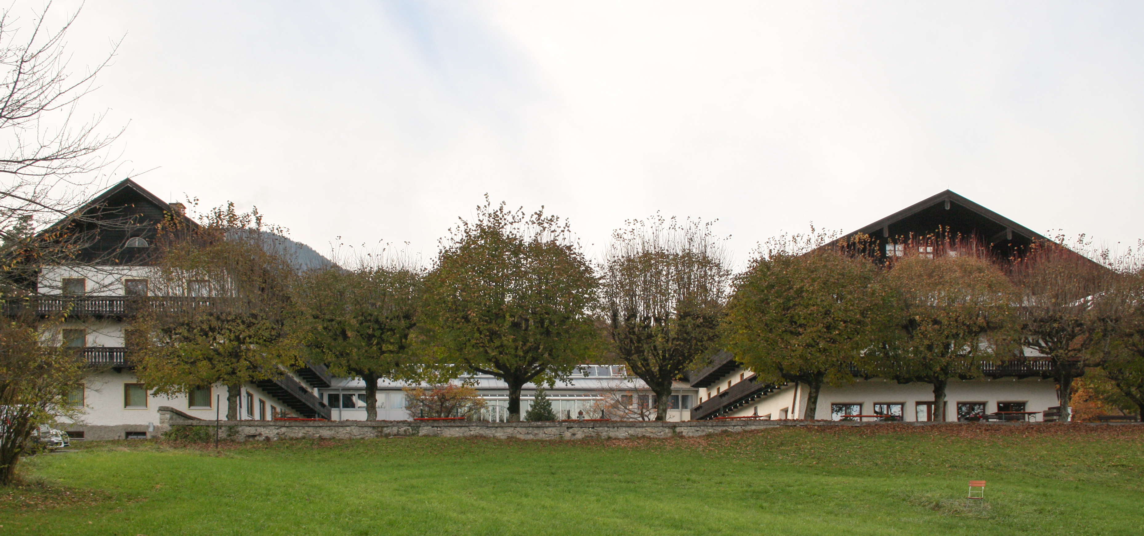 A View from the street to the Front of the ver.di educaton cener in Brannenburg